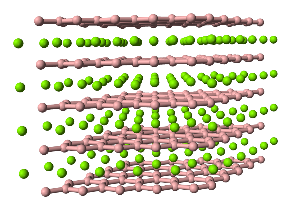 Ball-and-stick model of the part of the crystal structure of magnesium diboride, MgB2. Crystal structure data from 3DChem.